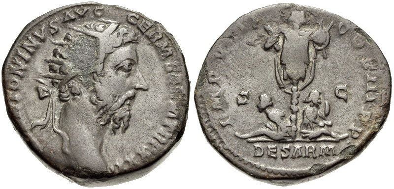 Marcus Aurelius. AD 161-180. Æ Dupondius (24mm, 12.28 g, 11h). Rome mint. Struck AD 177. M(ARCUS) ANTONINUS AUG(USTUS) GERM(ANICUS) SARM(ATICUS) TR(IBUNITIA) P(OTESTAS) XXXI Radiate head right IMP(ERATOR) VIII CO(N)S(UL) III (TERTIUS) PP Seated male and female Sarmatian captives (the right-hand female with head resting on hand, possibly a representation of the defeated "Sarmatia", (c.f. similar imagery on coins showing defeated "Germania", "Armenia" etc. in similar poses) flanking vexilium draped with spoils. S(ENATUS) C(ONSULTO) across field, in exergue: DE SARM(ATIS) RIC III 1188. VF, brown patina, area of roughness on portrait. From the White Mountain Collection.